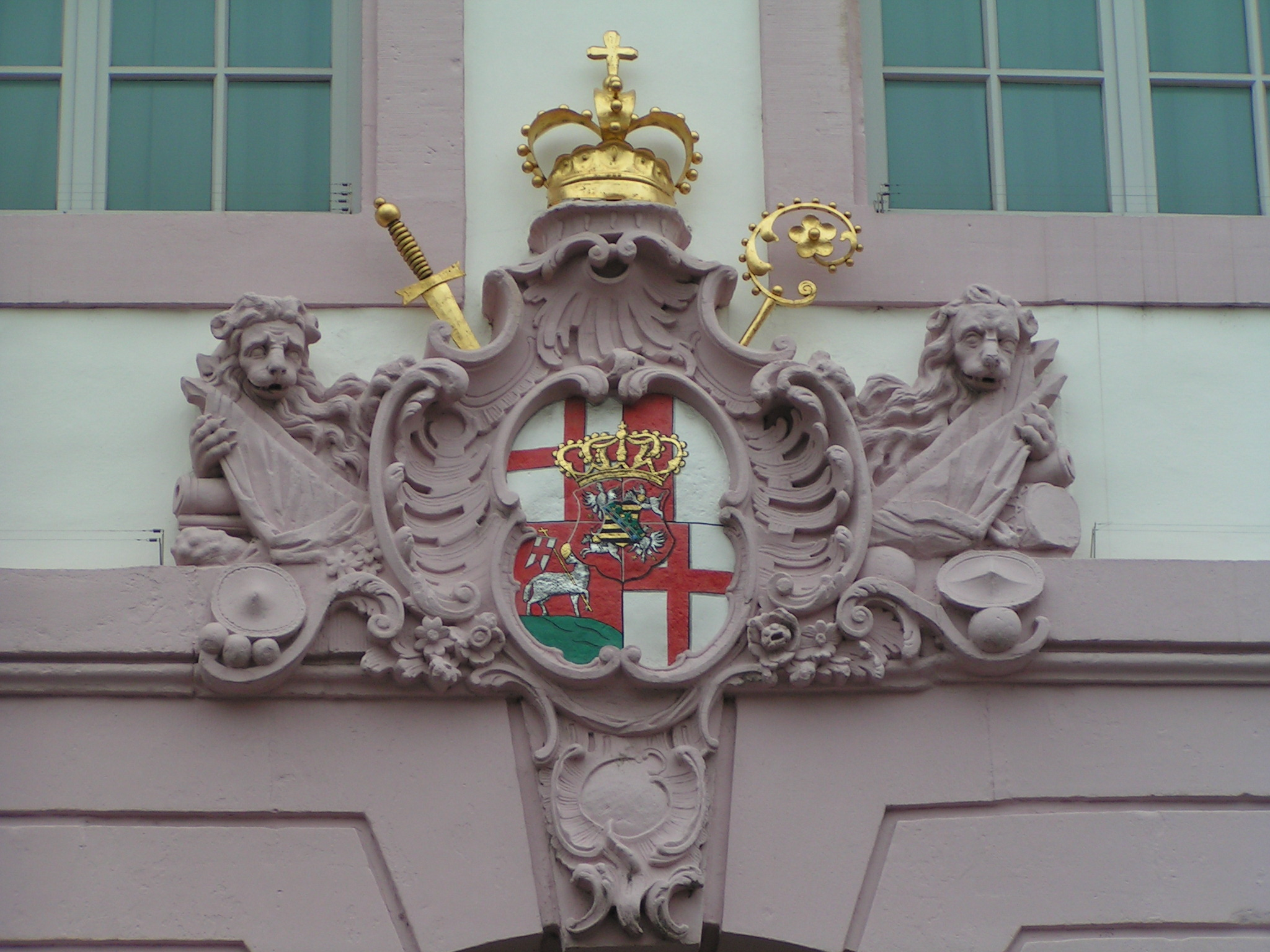 Palais Walderdorff in Trier, Rhineland-Palatinate, Germany